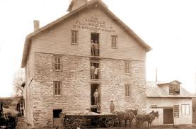 Historic photo of Annville Mill in its early years.